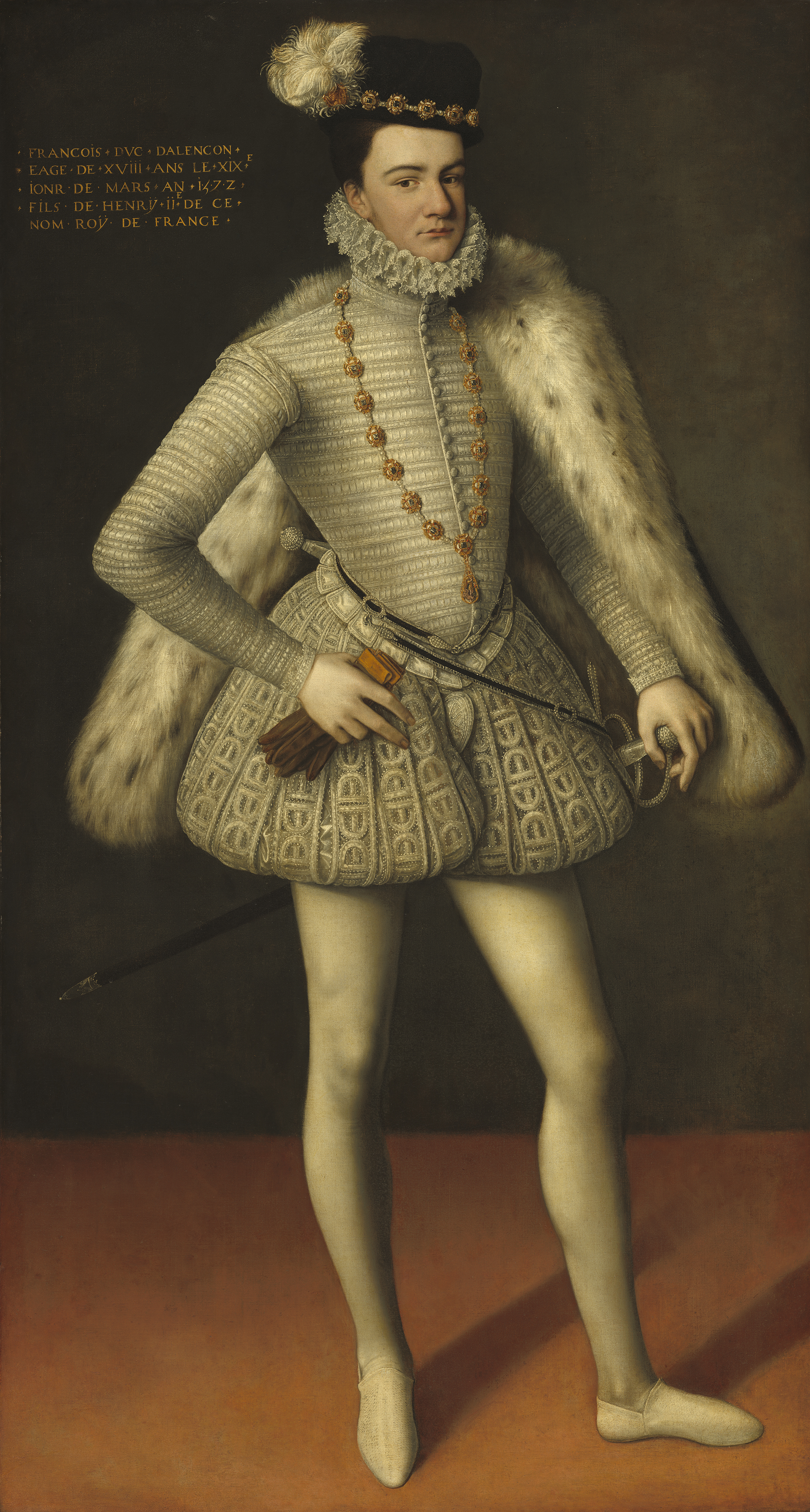 French 16th Century, Prince Hercule-François, Duc d'Alençon, , 1572, oil on canvas, Samuel H. Kress Collection.